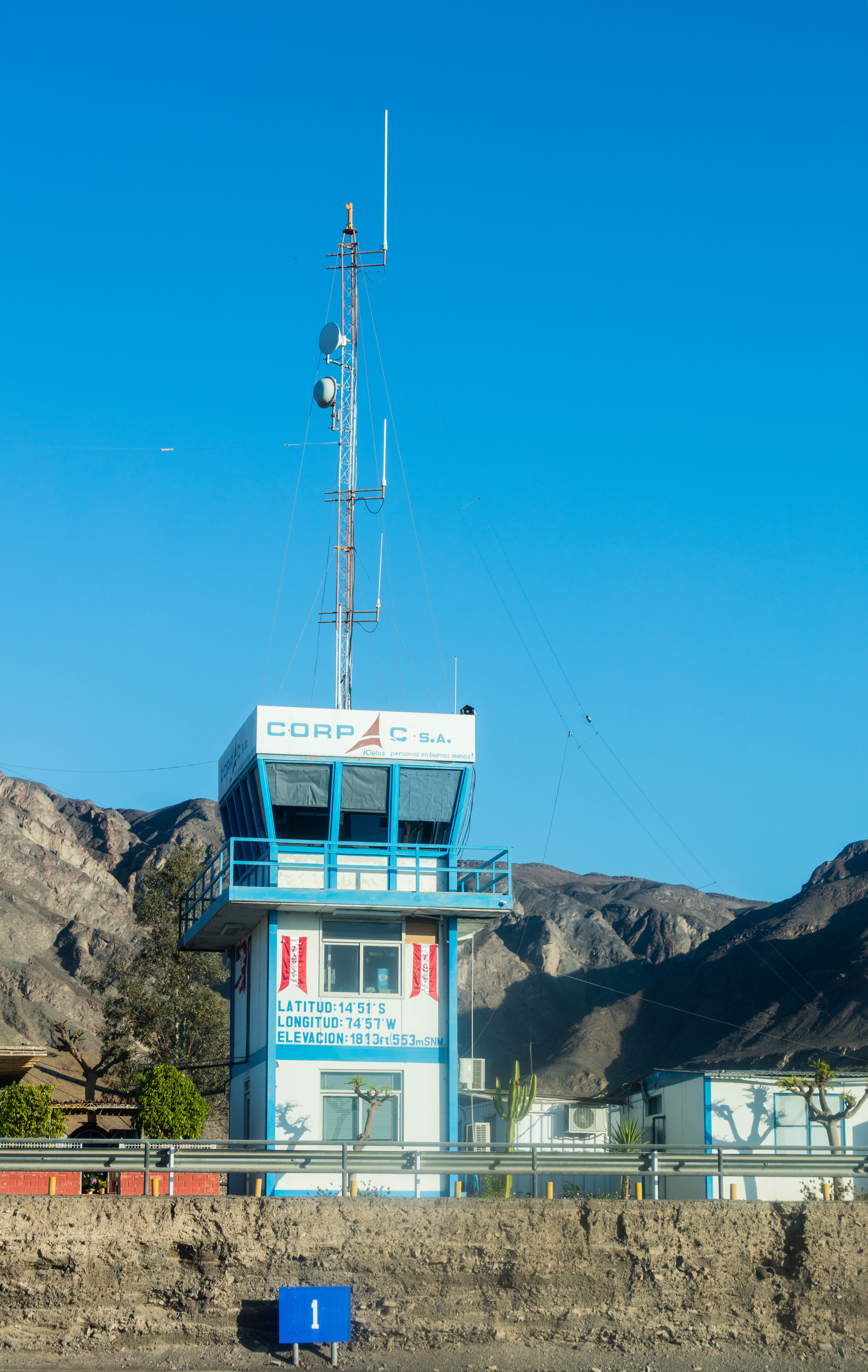 Tower of the Nazca aerodrome, Peru